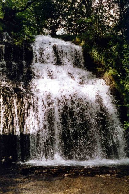 Pistyll Goleu. 25 feet of fall at the confluence of Sychnant and Nant Clydach.